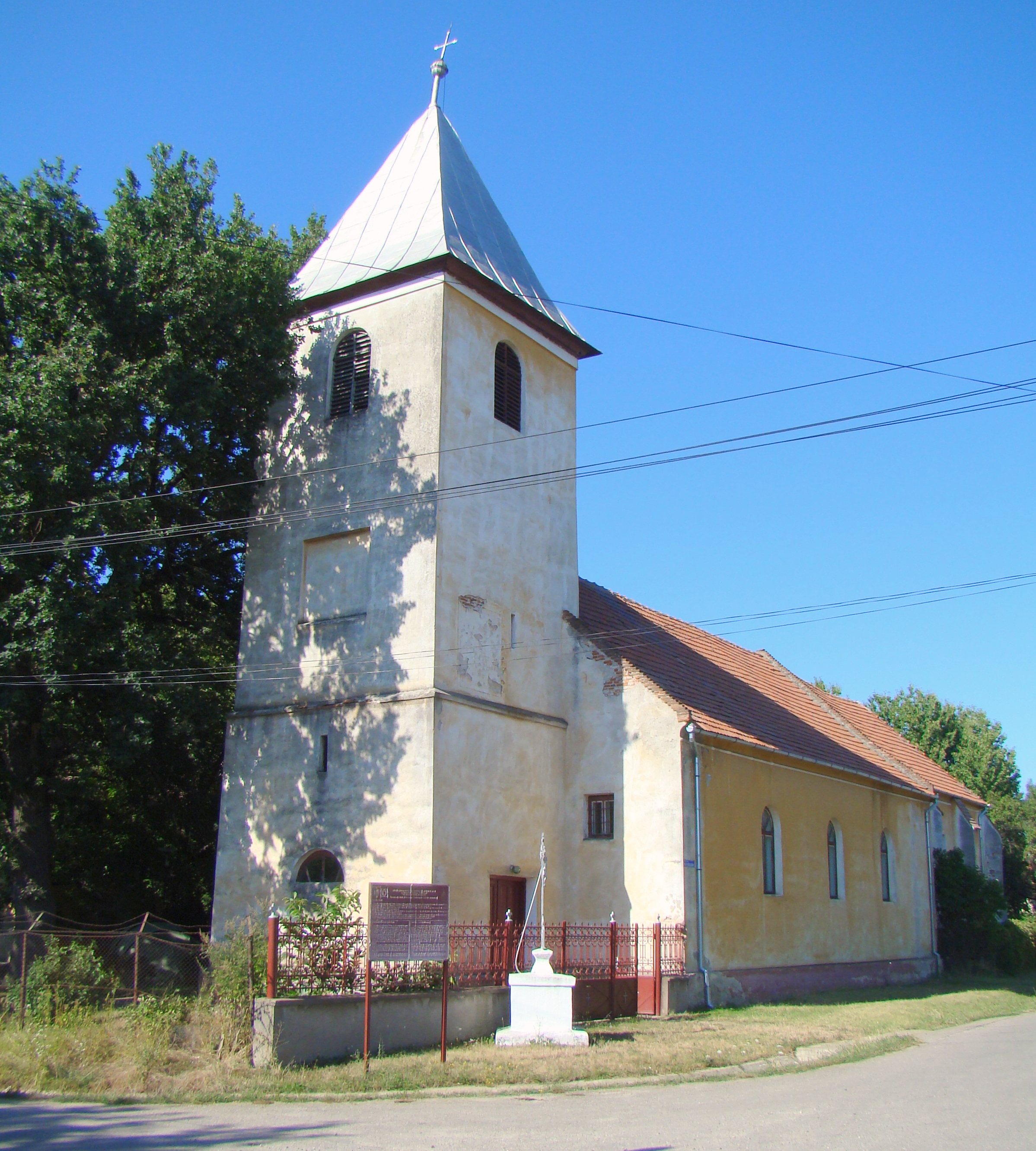 Franciscan monastery in Vințu de Jos, Alba county, Romania 01